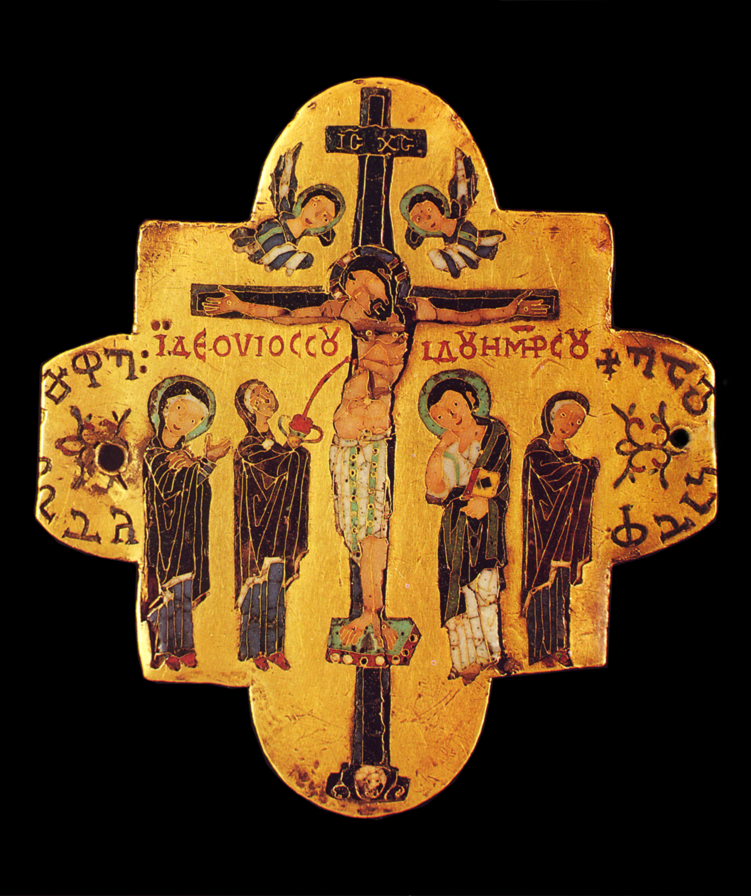 Cellular enamel on golden ground, 8 x 7.2 cm, Fine Arts Museum, Tbilisi